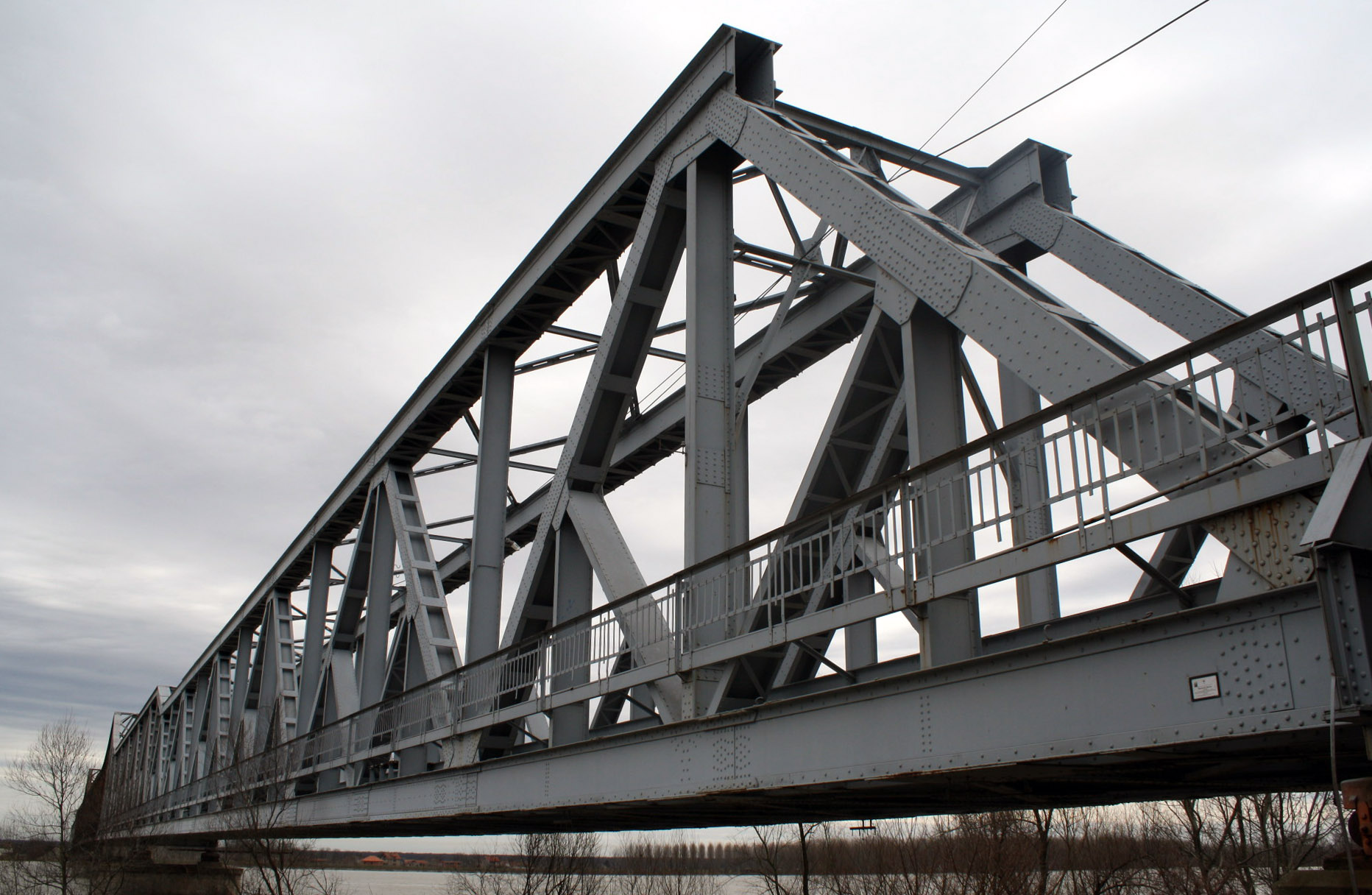 Old railway bridge in Šabac over the Sava river.